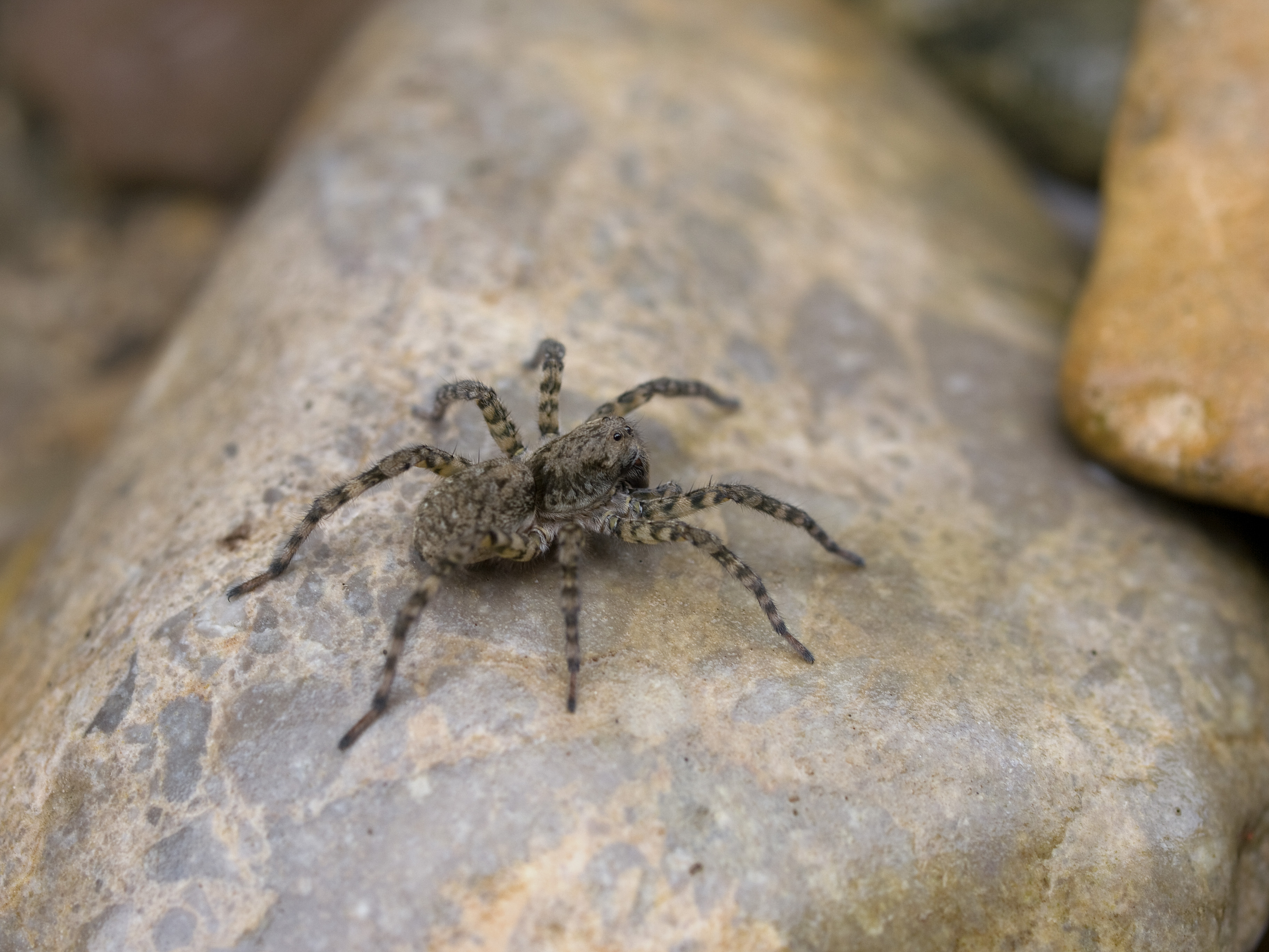 Arctosa maculata, female, Picture taken in Bavaria in the valley of the Mangfall Wolfsspinne Arctosa maculata, Weibchen, aufgenommen im Mangfalltal, Bayern If it is another species, please contact me.